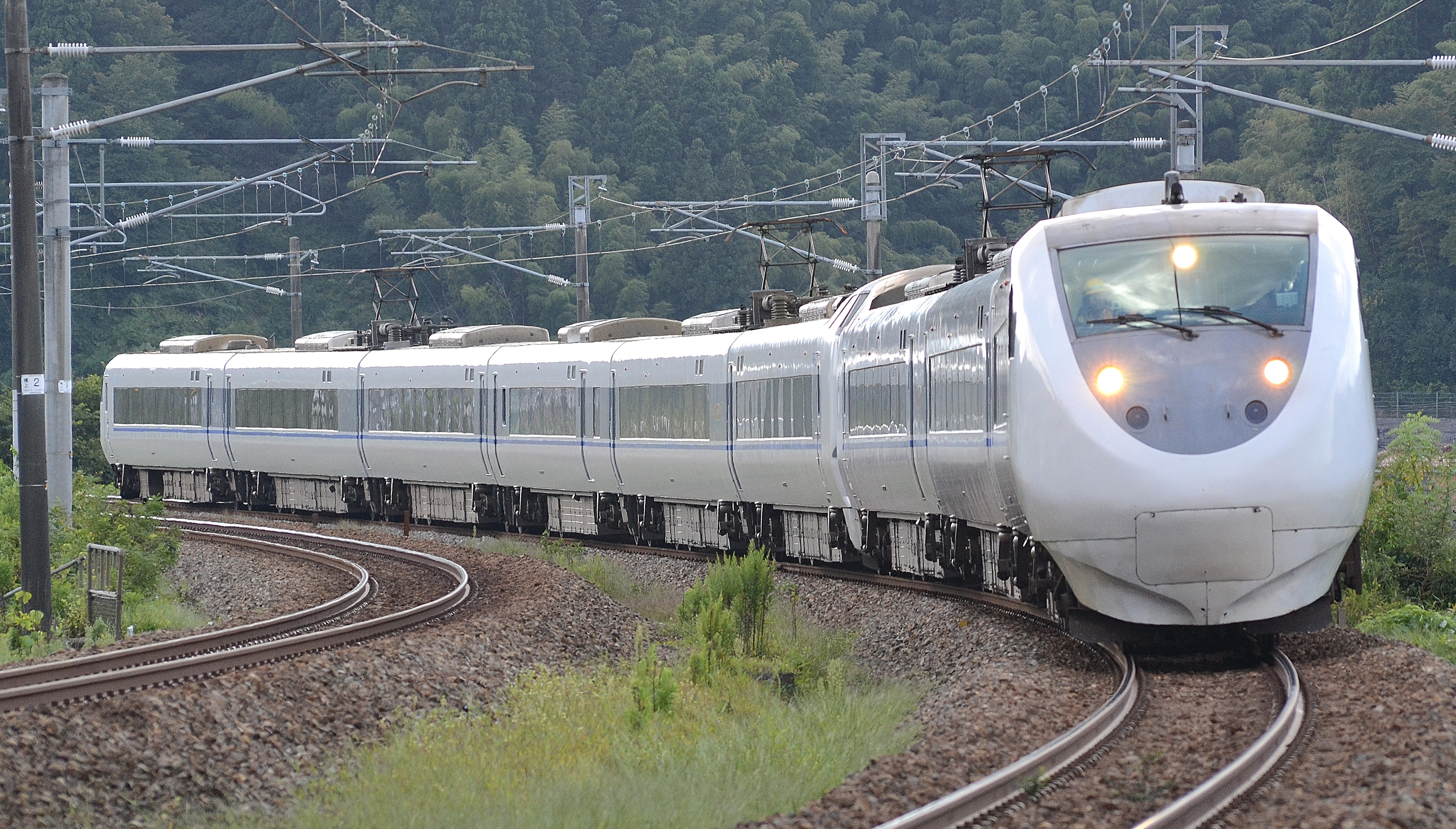 A JR West 681 series EMU on a Hakutaka limited express service on the Hokuriku Main Line